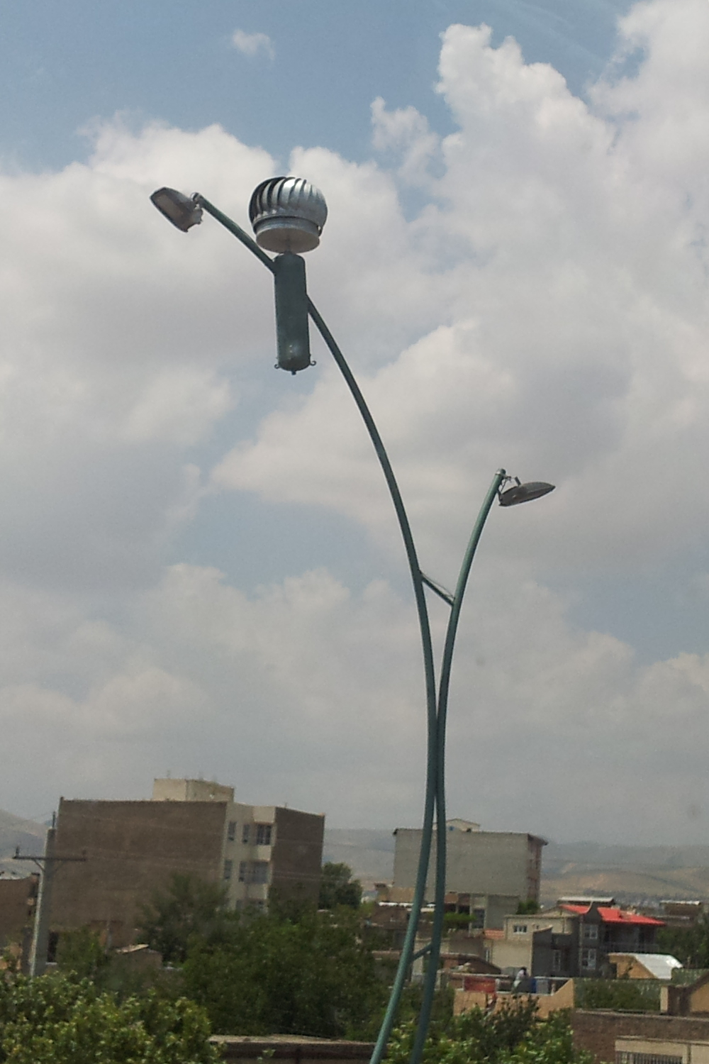 A wind powered street light, works in every direction.